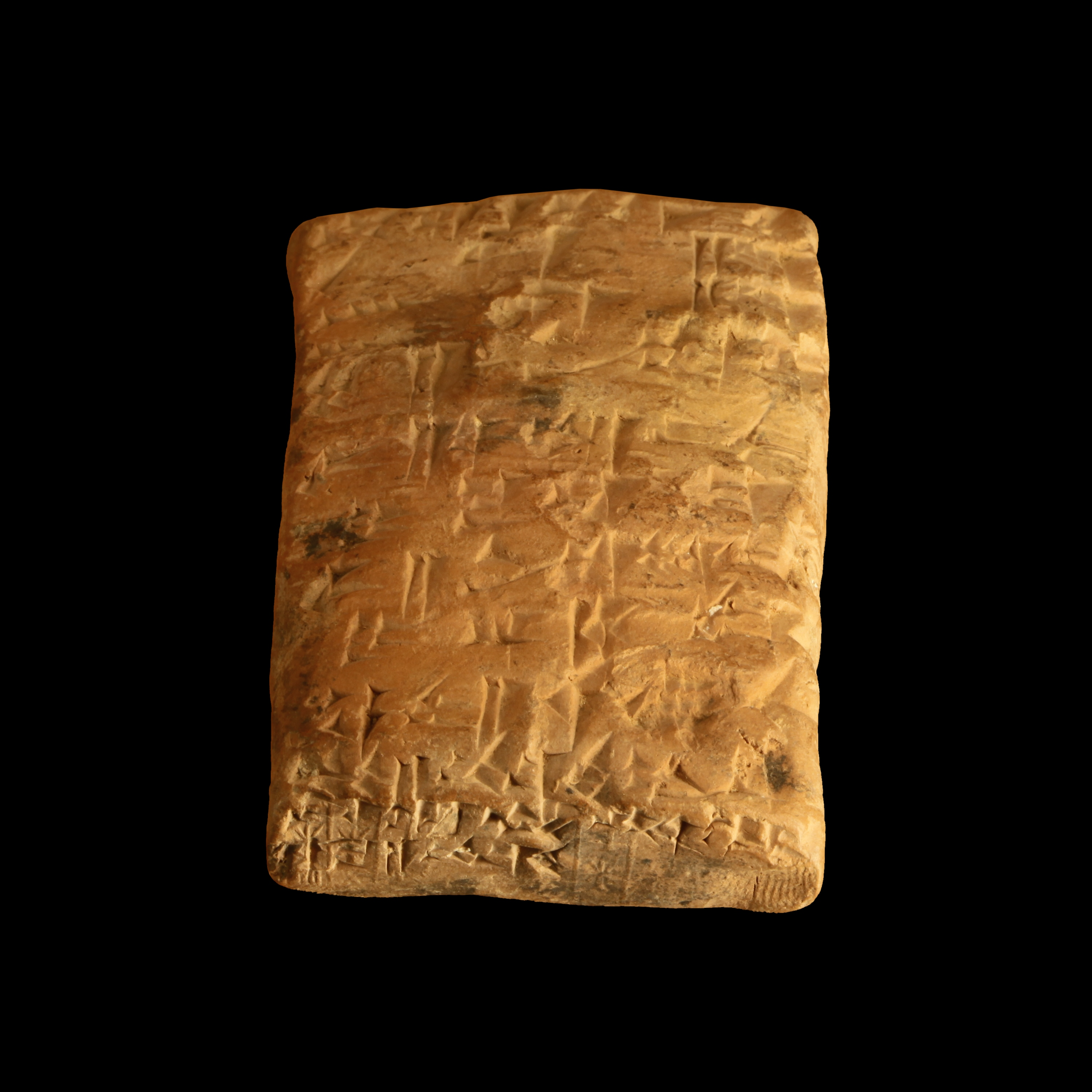 Legal document pertaining to the annual rent of a field. Babylonie, reign of Abi-eshuh (1711-1684 BCE)